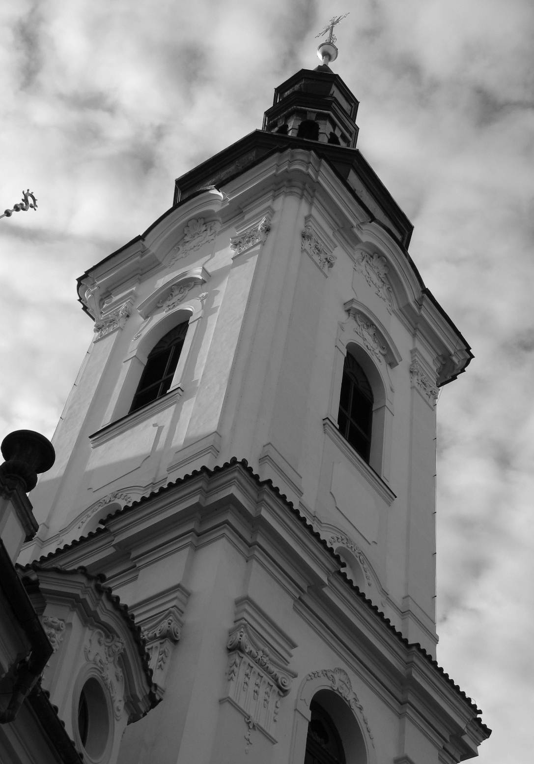 Part of Strahov Monastery